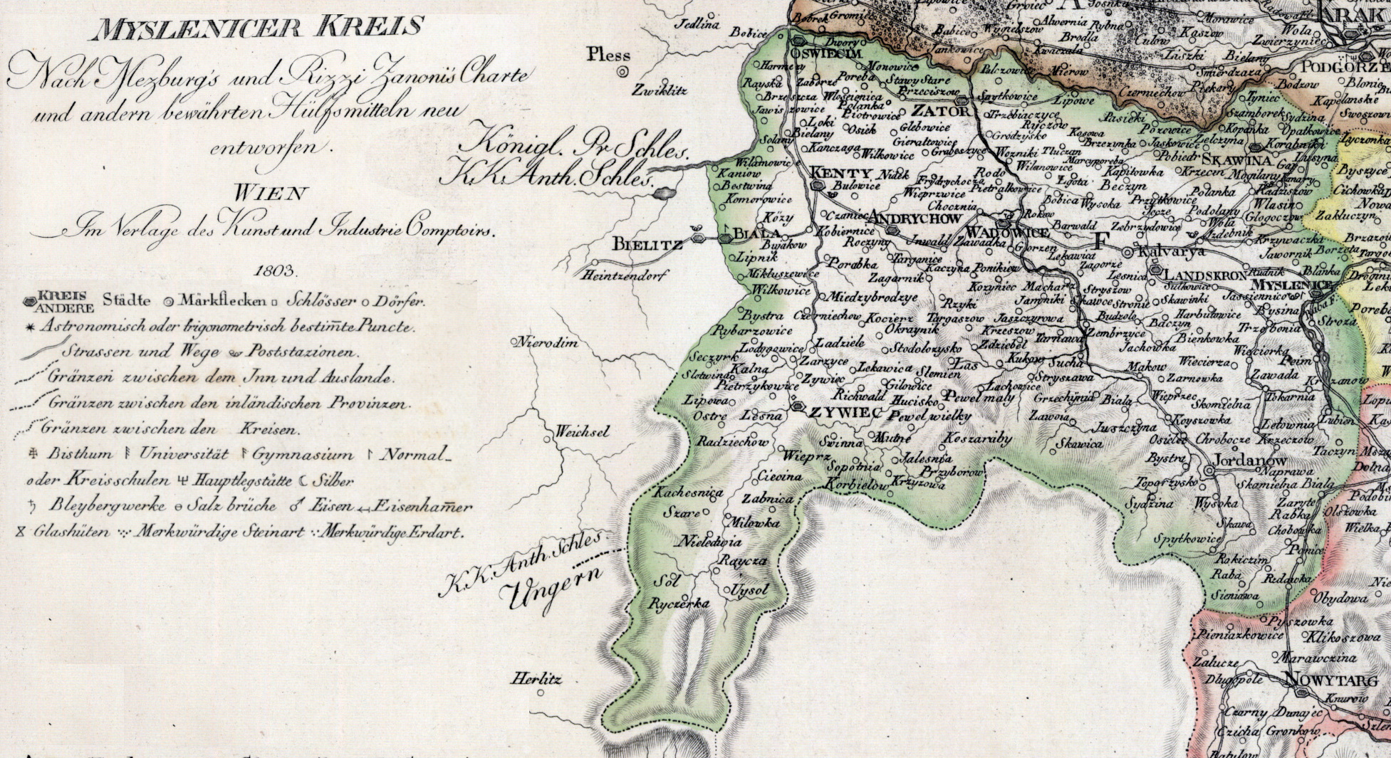 Circulus (Kreis) of Myślenice in 1803, in 1819 its seat moved to Wadowice